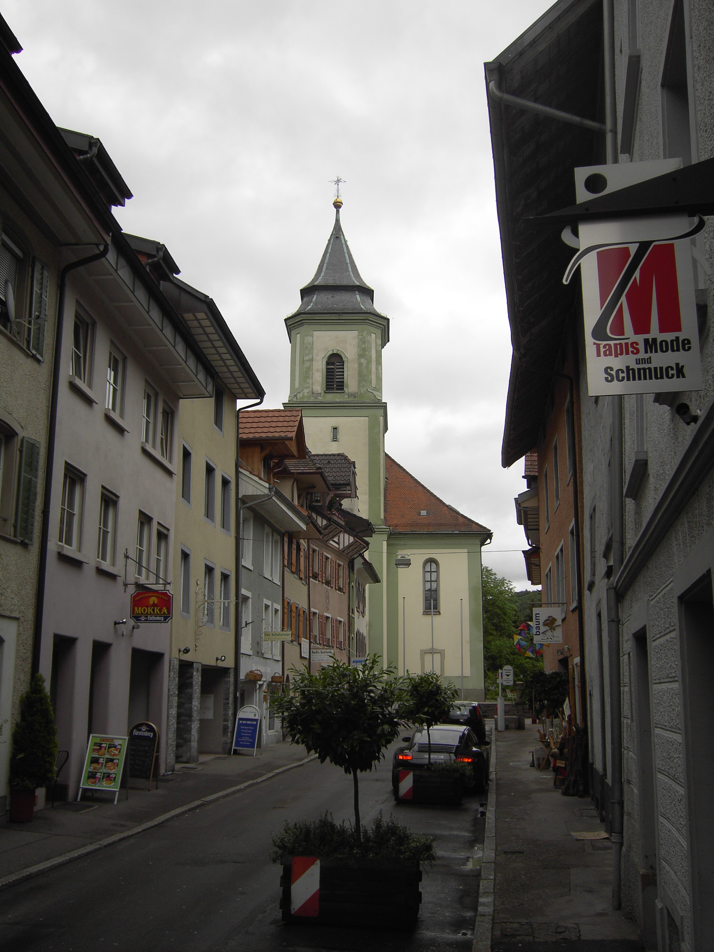 Waldshut, Germany, roman-cath. Church